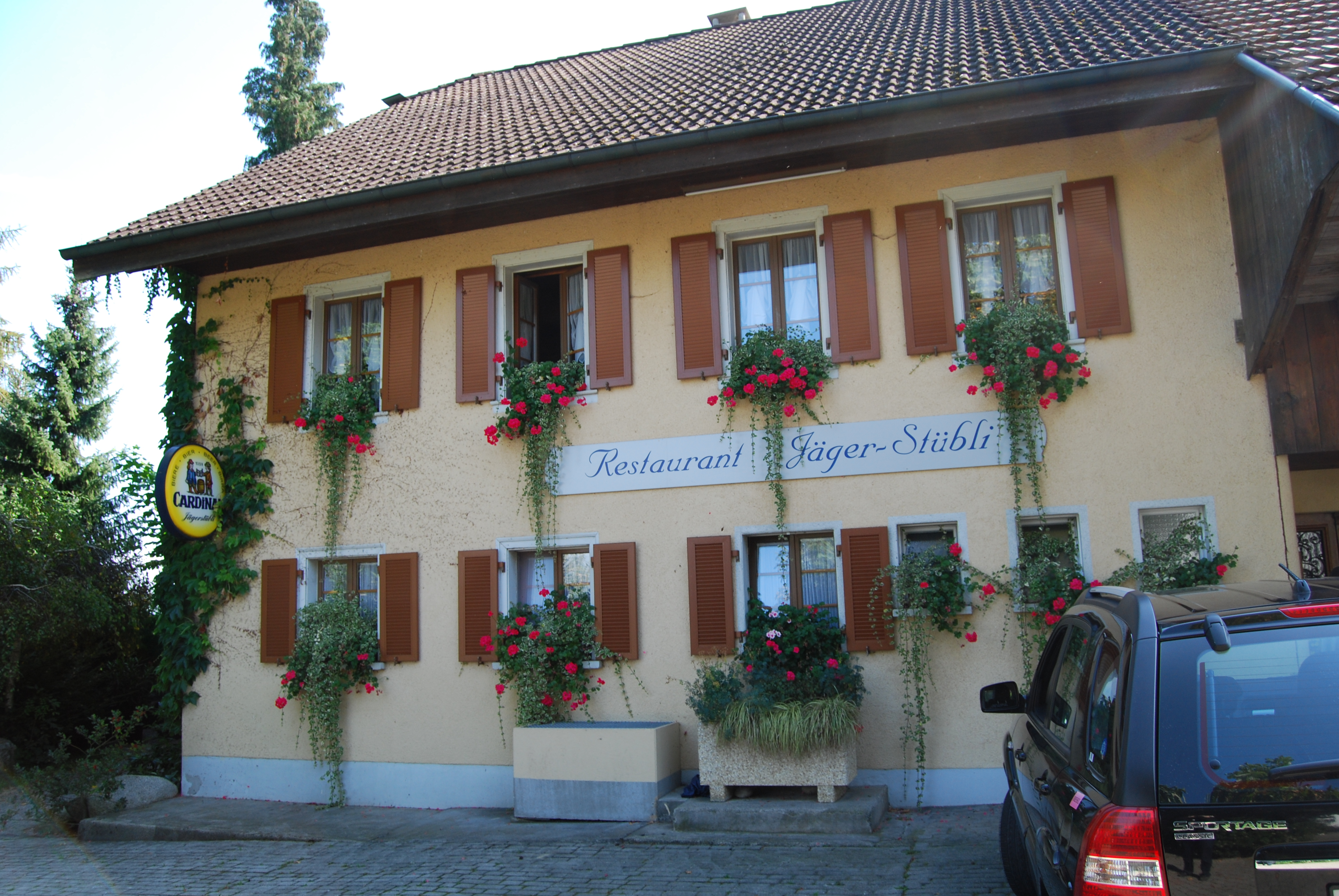 Restaurant Jäger-Stübli at Kallern, canton of Aargau, SwitzerlandEsperanto: Restoracio Jäger-Stübli en Kallern, Kantono Argovio, Svislando